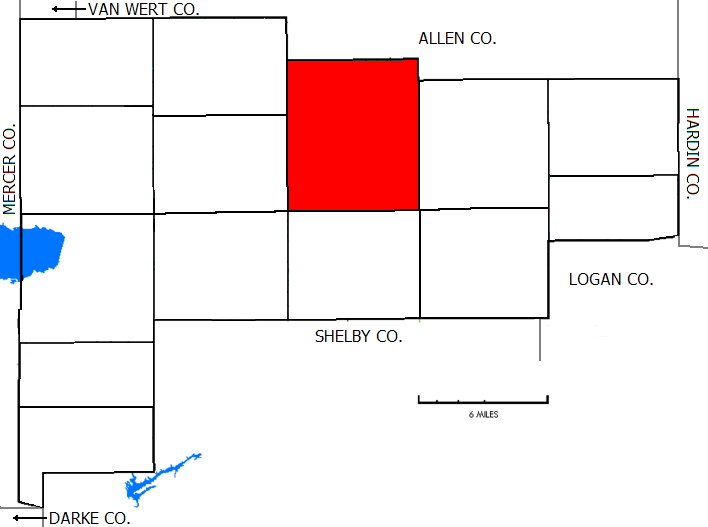 Taken from the Auglaize County map provided by Prinzwilhelm, who claimed that the original map was "self-created based on U.S. Government Census Maps and Date."